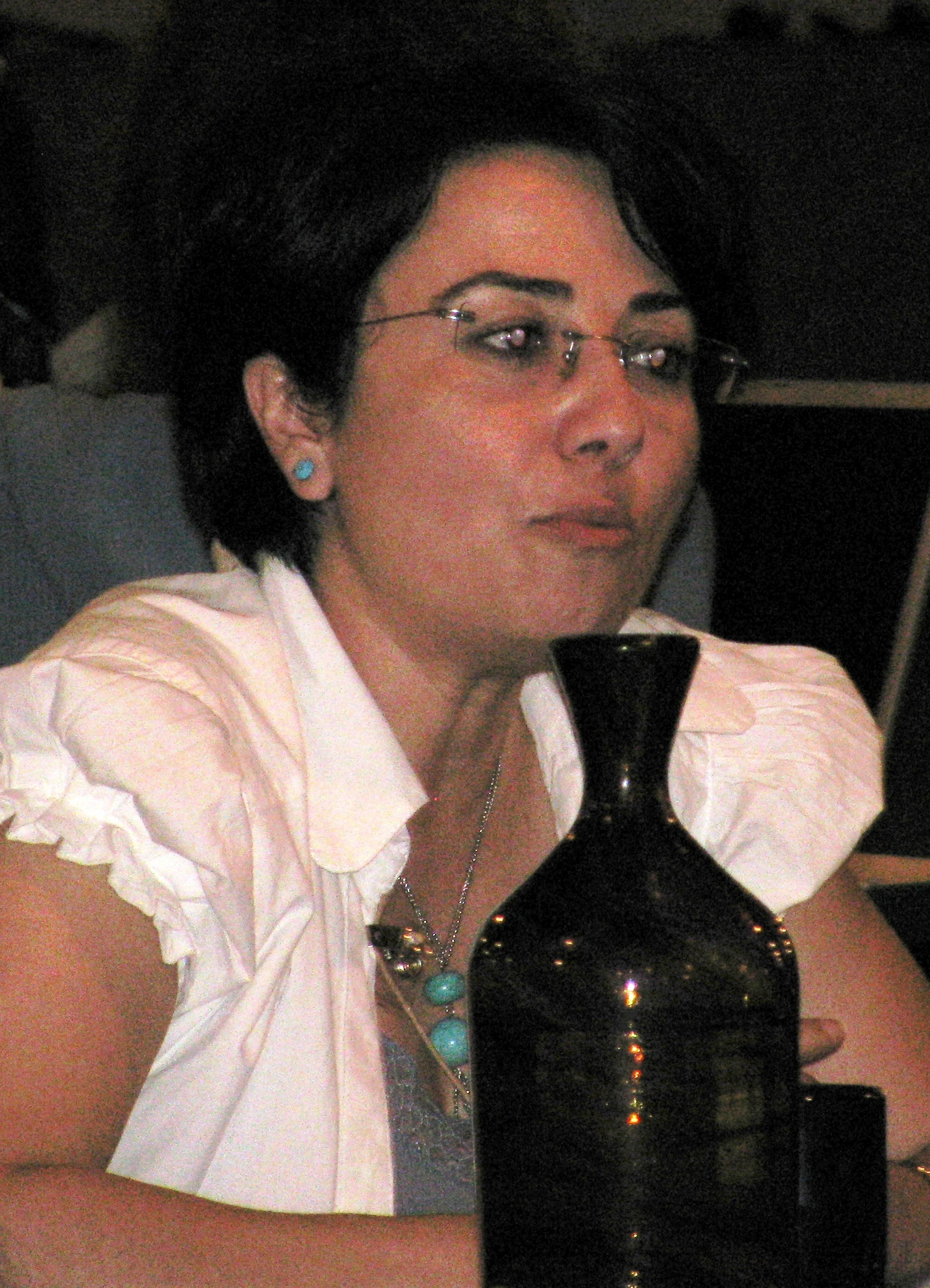 MK Haneen Zoubi. I lightened and cropped a very dark picture.